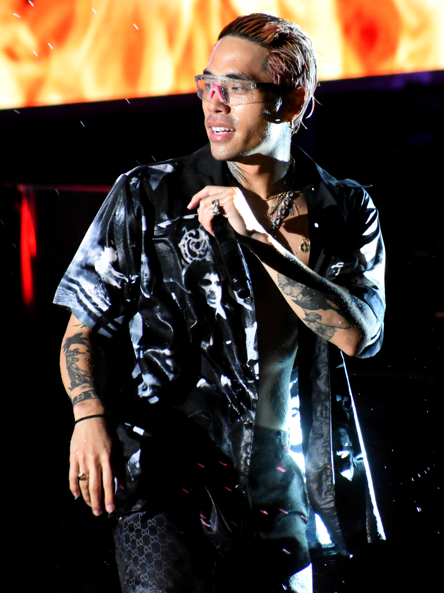 Reddy at the 23rd Busan Sea Festival in Haeundae on August 1, 2018.